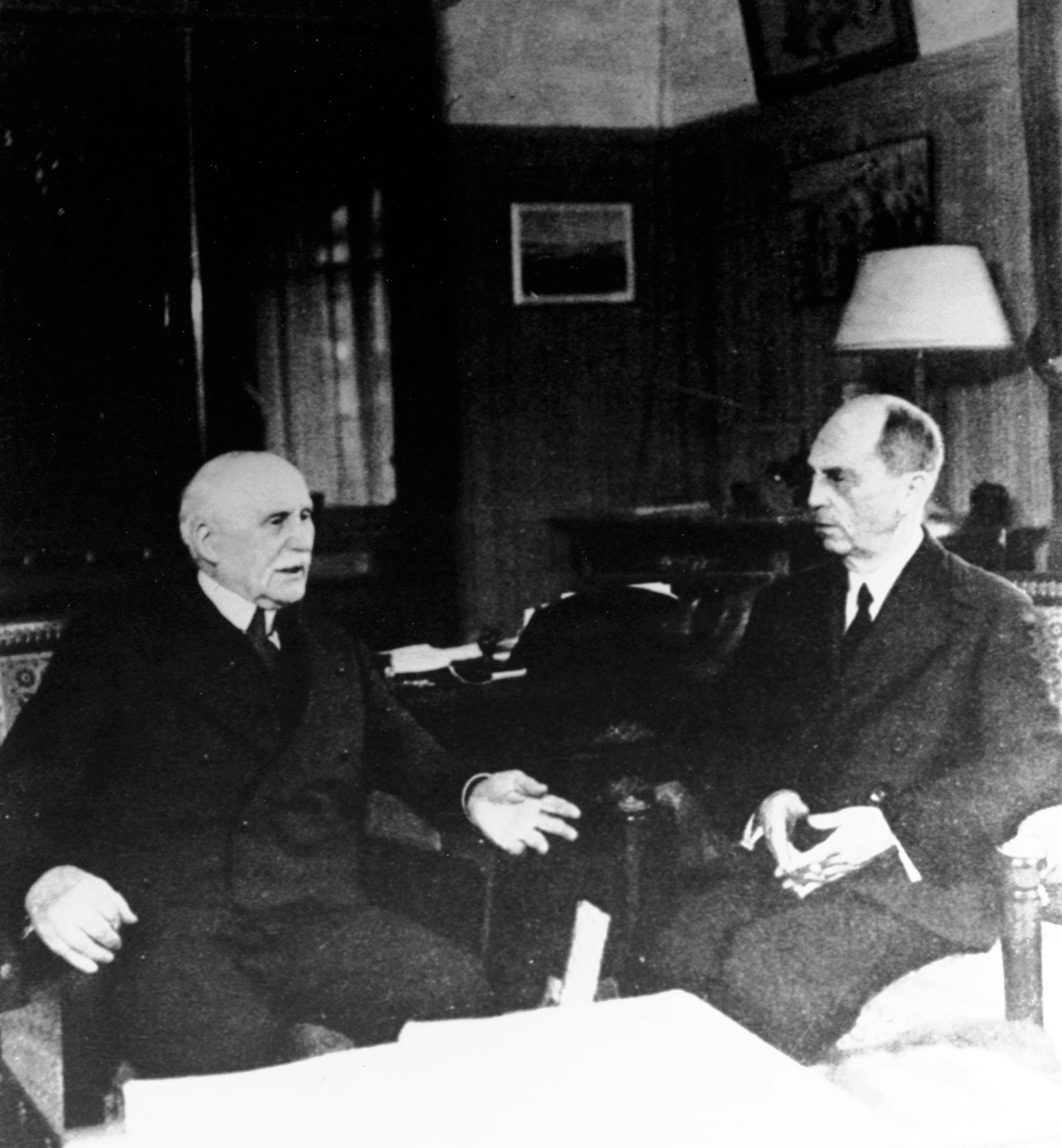 NH 89478: Admiral William D. Leahy, USN (Retired), United States Ambassador to France (right) Pays a farewell call on French Chief of State Marshall Philippe Pétain, at Vichy, 27 April 1942. Naval History and Heritage Command Photograph. (2016/03/14).